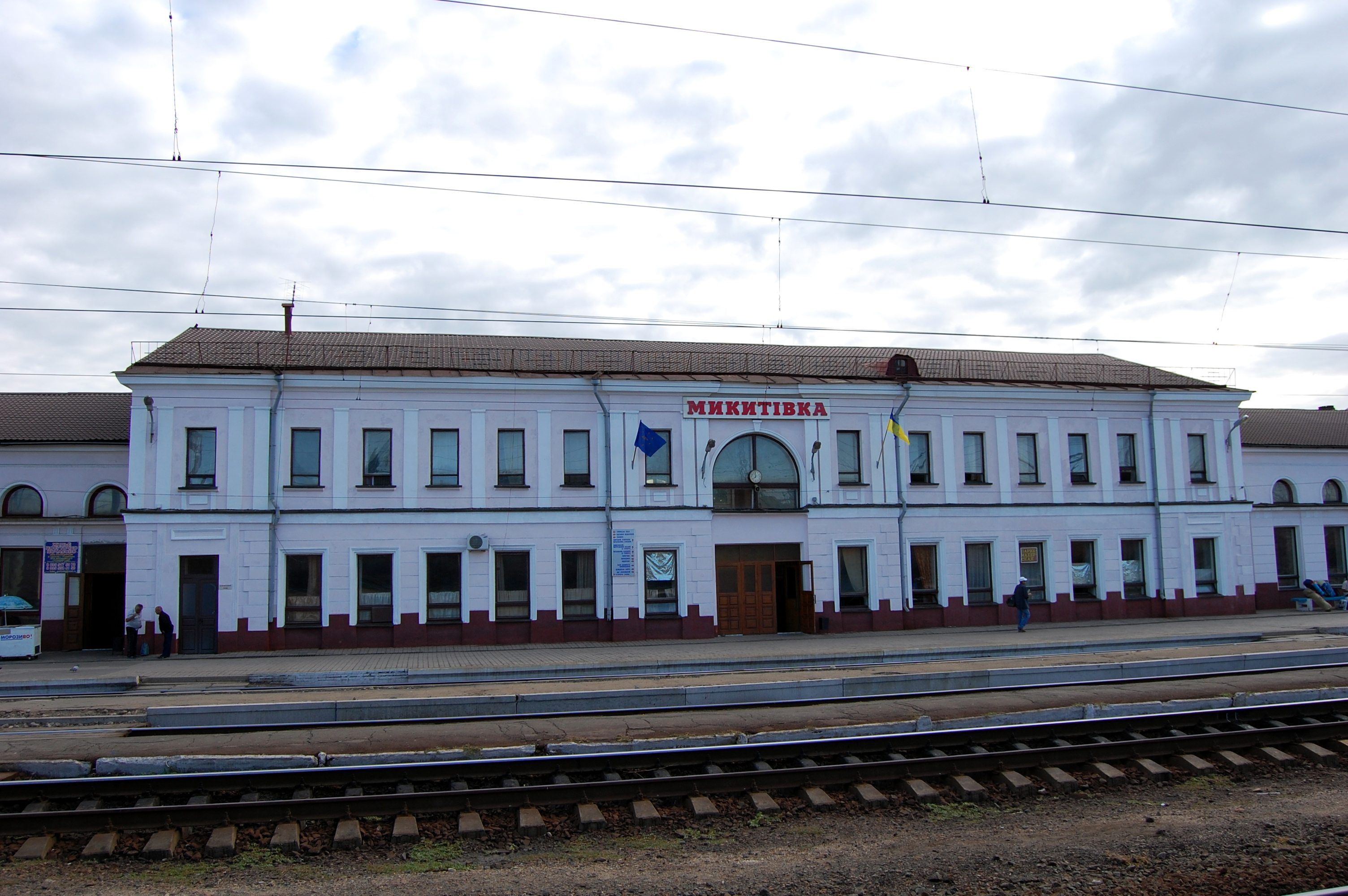 Railway station Mykytivka in Gorlivka town